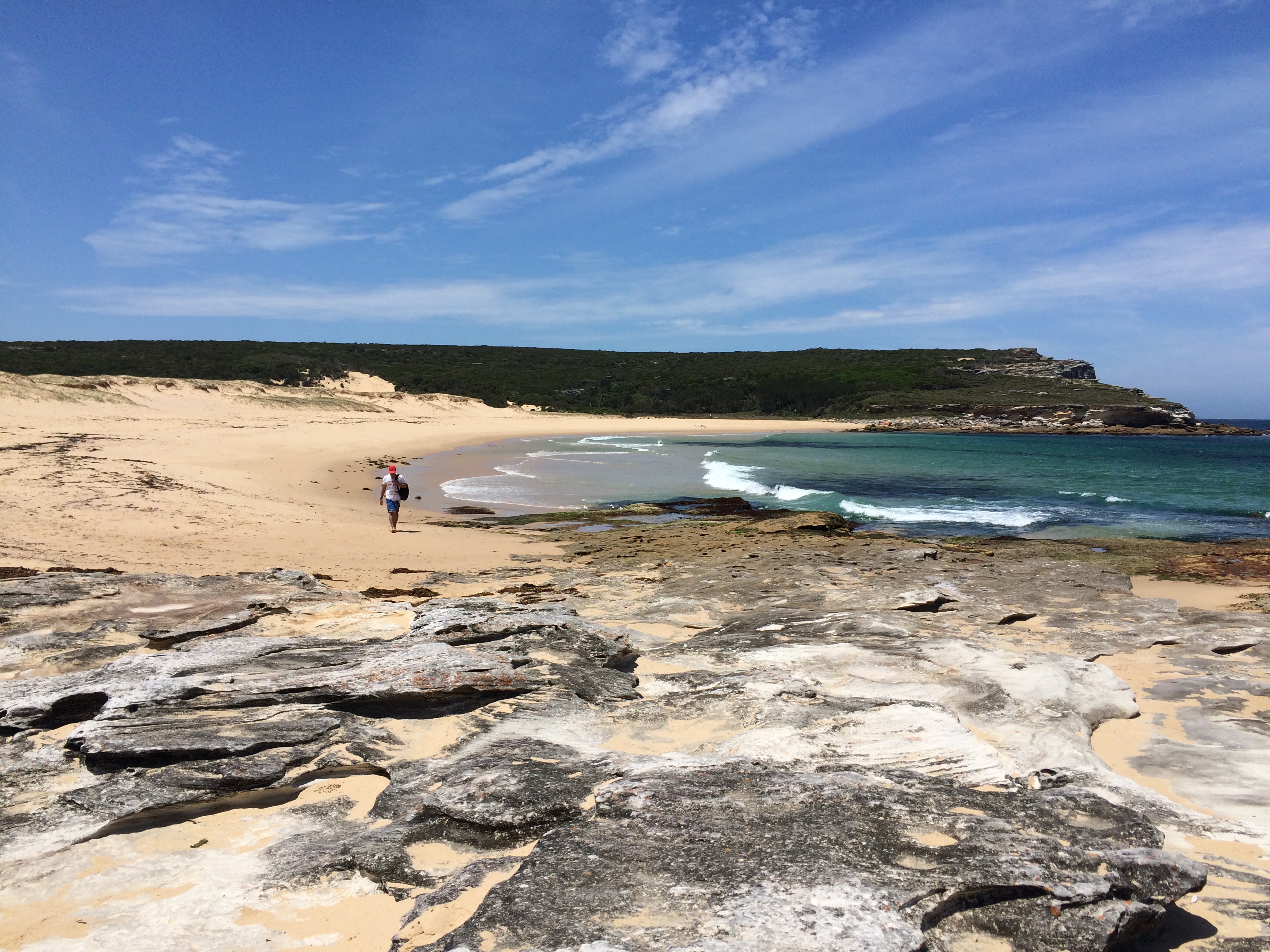 Another view across Marley Beach, looking northwest. This image was taken a bit further back from the original image, with the surf featuring more prominently inside the frame. Chenny Chen, a close friend of mine and a member of our expedition to Marley Beach, appears in the photo.